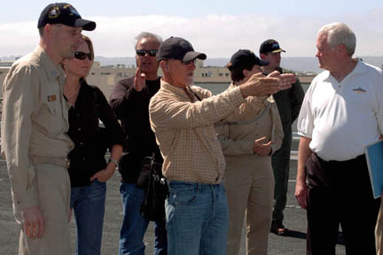 Transformers II Producer, Ian Bryce (center), scouts filming locations on the flight deck aboard the Nimitz-class aircraft carrier USS John C. Stennis (CVN 74). Bryce was aboard the ship in port San Diego in preparation for filming on Stennis in November.